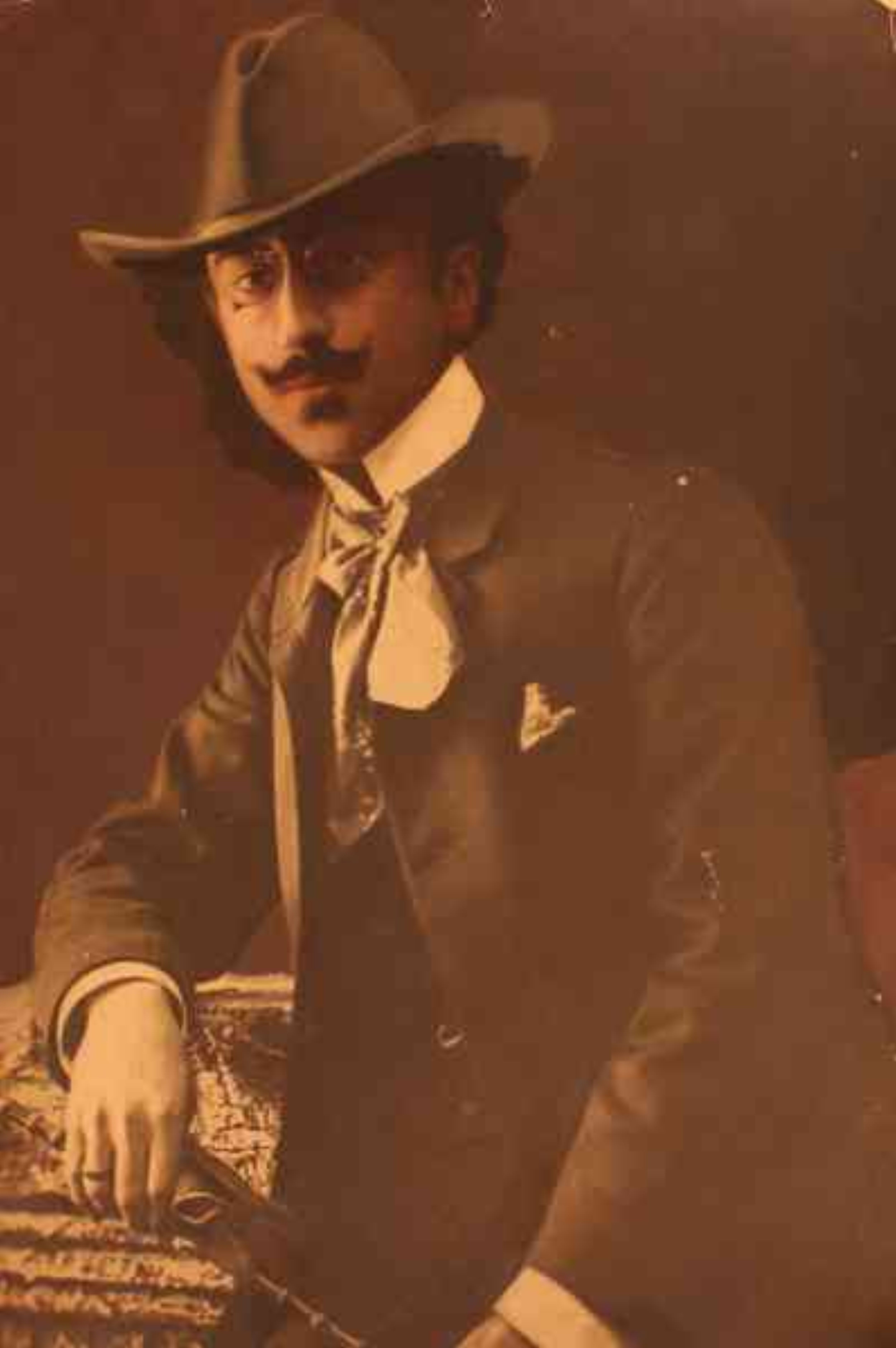 Hrand Alyanak (Armenian: Հրանտ Ալյանակ; 1880 in Istanbul, Ottoman Empire - 1938 in Paris, France) was an Ottoman Armenian painter.